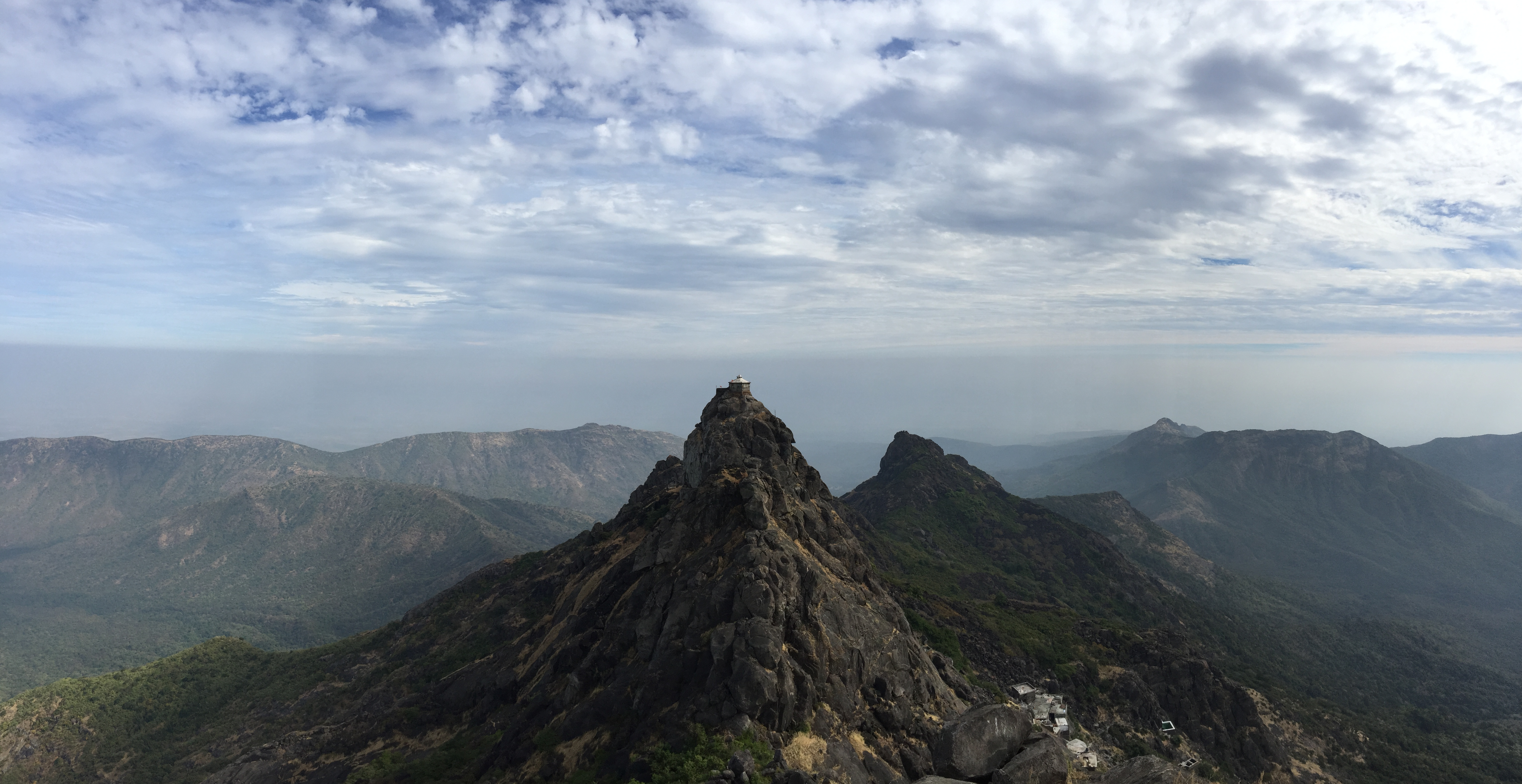 5 th tonk ( Shri Neminath Bhagwaan , Nirvaan Shthali ) /भगवान नेमिनाथ निर्वाण स्थली /दत्तात्रेयदेउळ गिरनार.